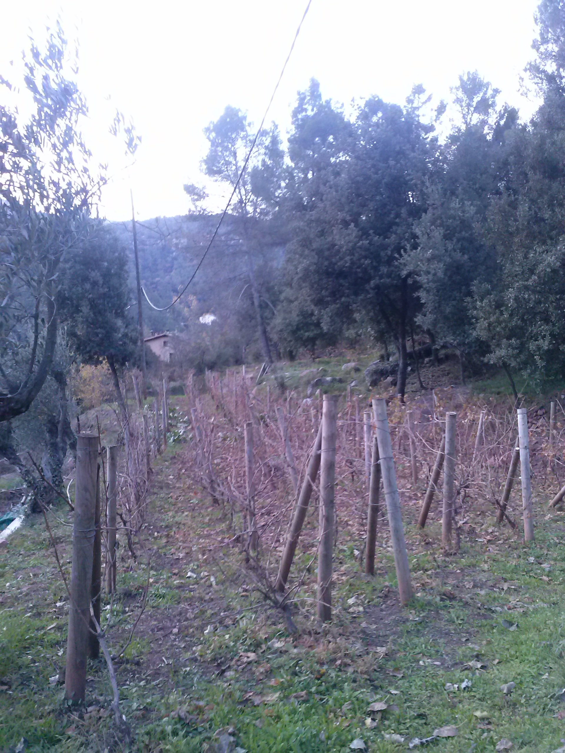 Les Casetes del Congost, Can Pere Moliner vineyard, Cal Capellà and El Torn, the bottom of the image